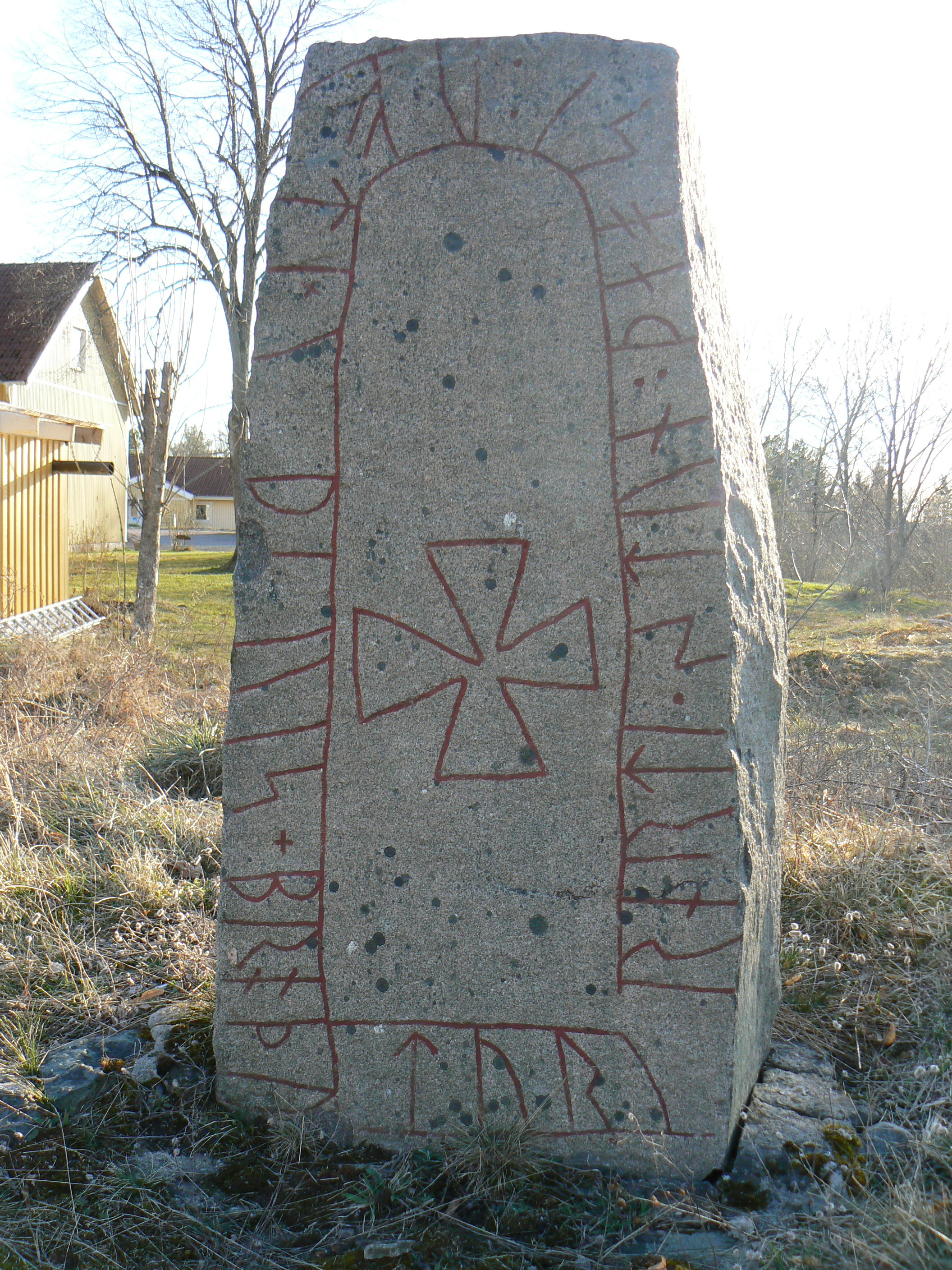 Runestone Ög 151, at Furingstad church, southeast of Norrköping, Sweden.